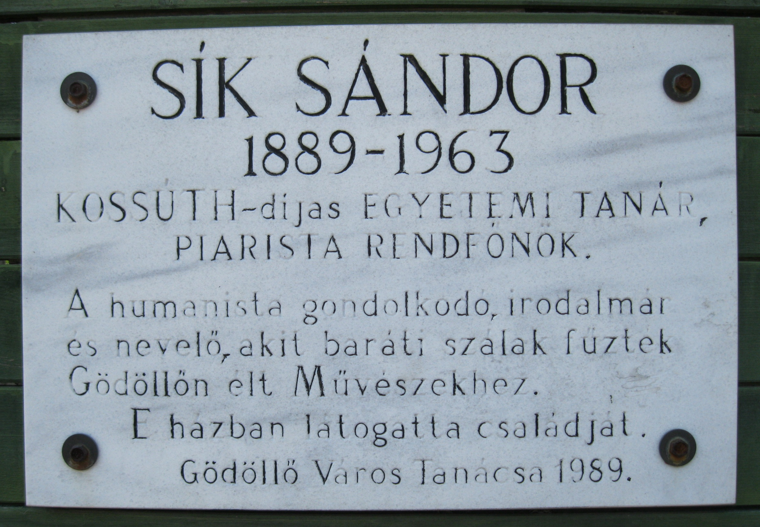 Commemorative plaque of Sándor Sík in Gödöllő, Isaszegi Street No 42